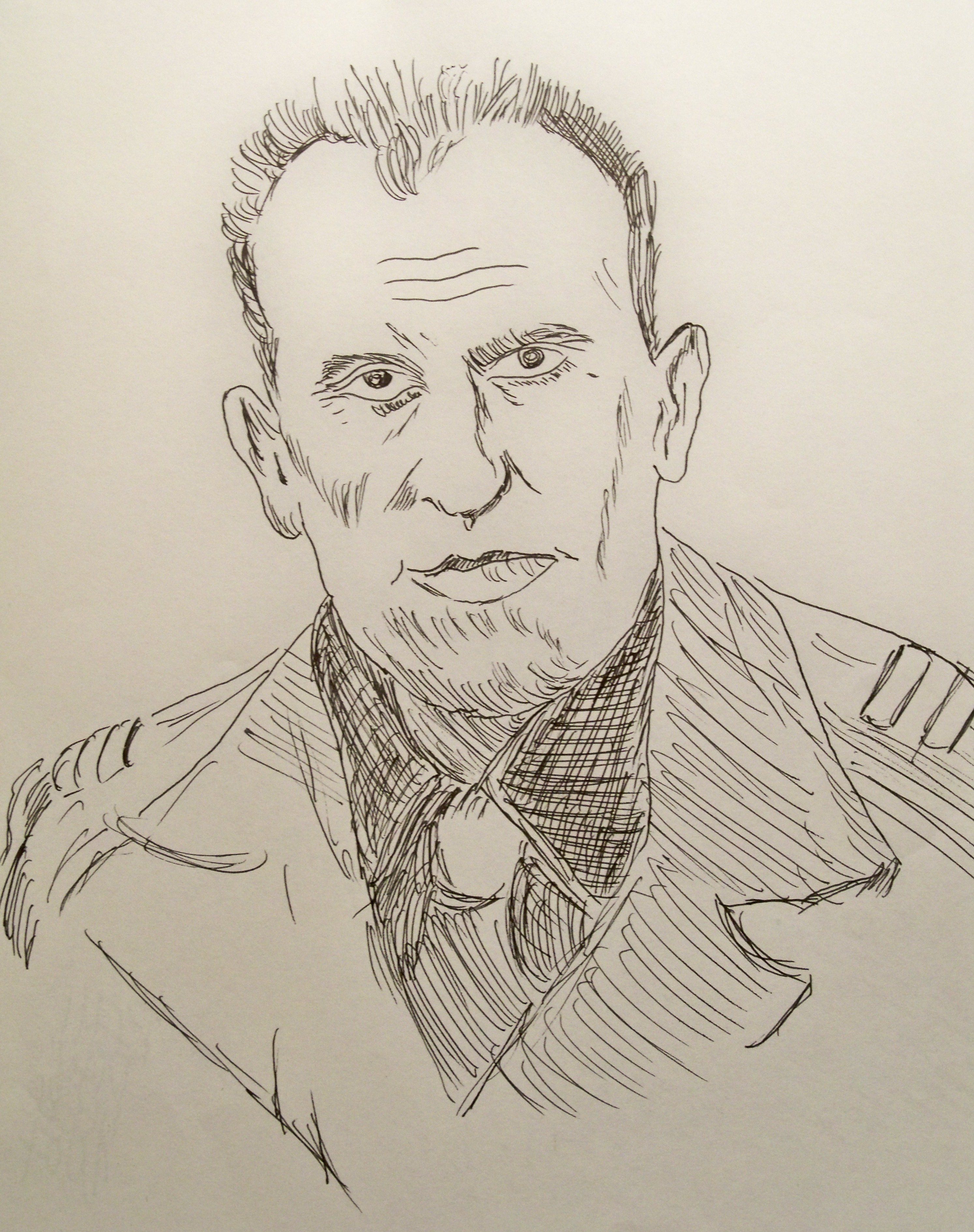 Description Portrait de René Char Date19 December 2010SourceOwn work by the original uploaderAuthorpersonnel Portrait de René Char